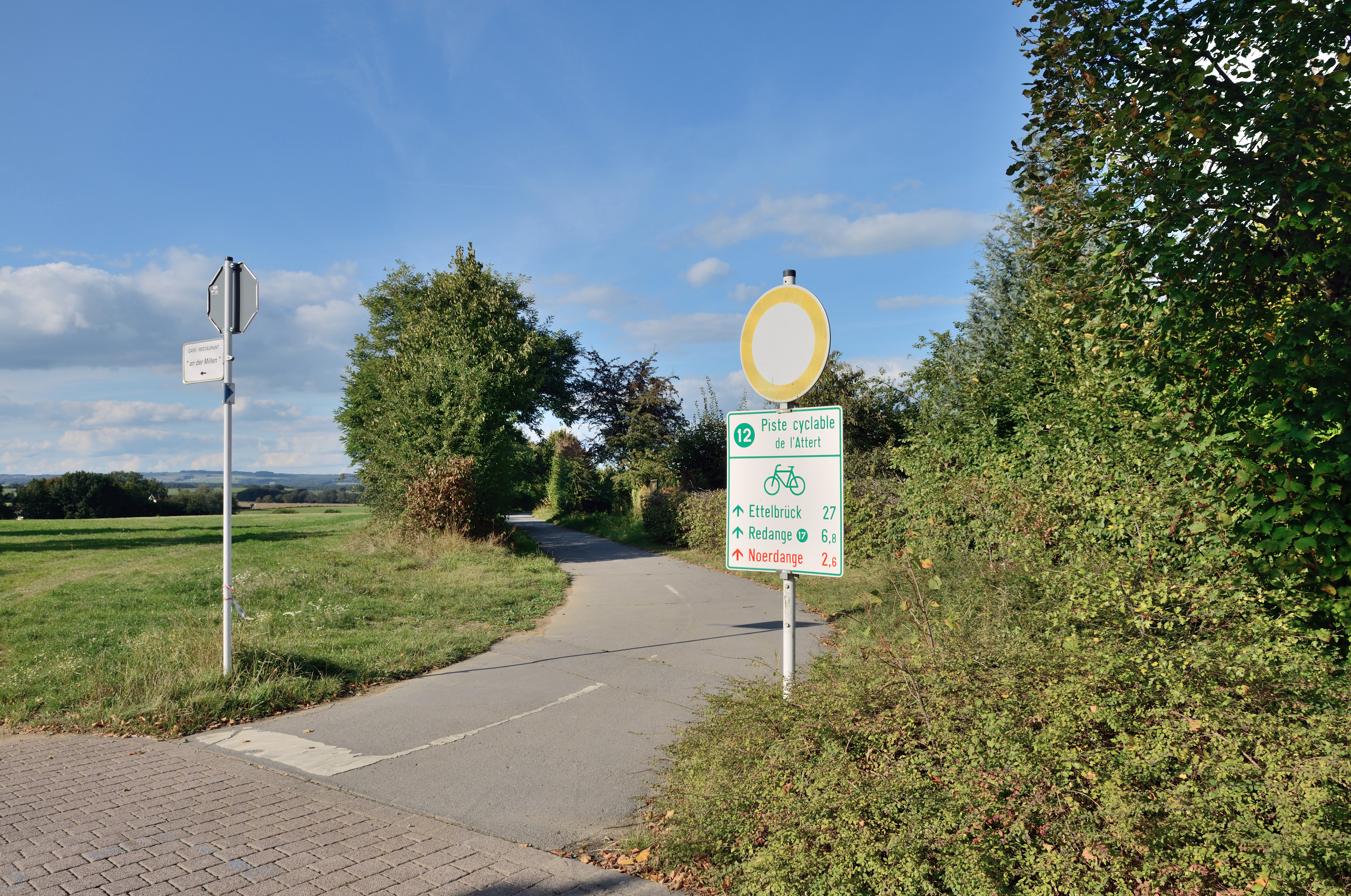 Bikeway at Hovelange, Luxembourg, on the former so-called Attert railway line from Pétange to Ettelbruck.